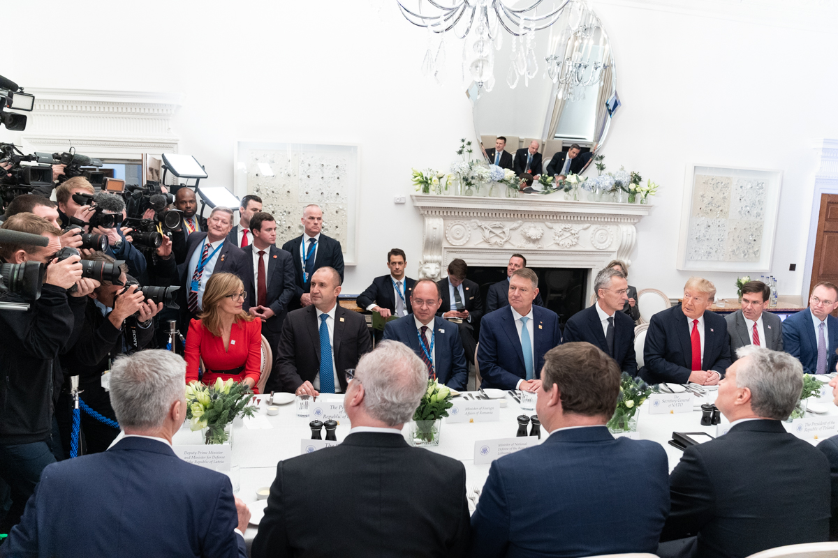 President Donald J. Trump participates in a working lunch with the 2%ers of the North Atlantic Treaty Organization (NATO), during the NATO 70th anniversary meeting Wednesday, Dec. 4, 2019, in Watford, Hertfordshire outside London. (Official White House Photo by Shealah Craighead)